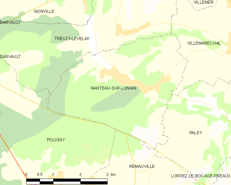 Map of French municipality Nanteau-sur-Lunain